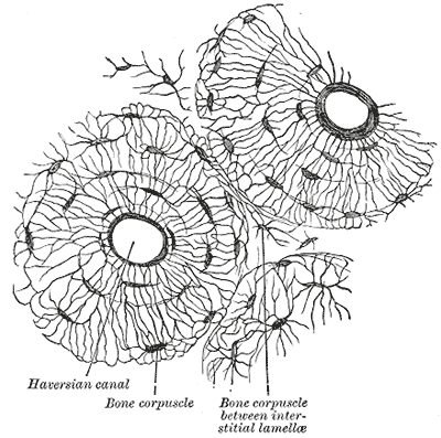 Transverse section of body of human fibula, decalcified. X 250.